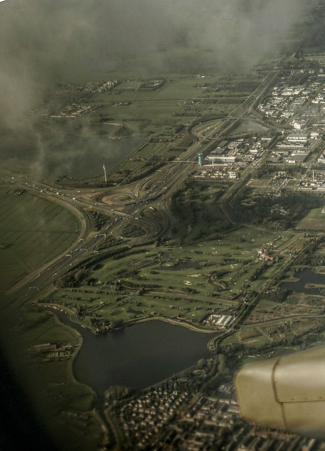 Junction Holendrecht between the A2 and A9 motorways just south of Amsterdam, the Netherlands. Image taken from a flight departing from Aalsmeerbaan. October 2012